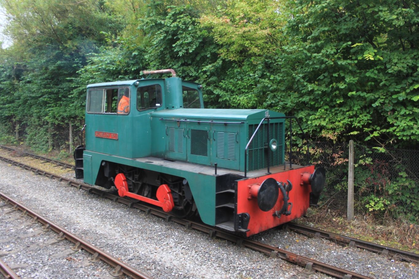 The Ribble Steam Railway's Vanguard shunter Stanlow No. 4 seen in the Exchange Sidings.